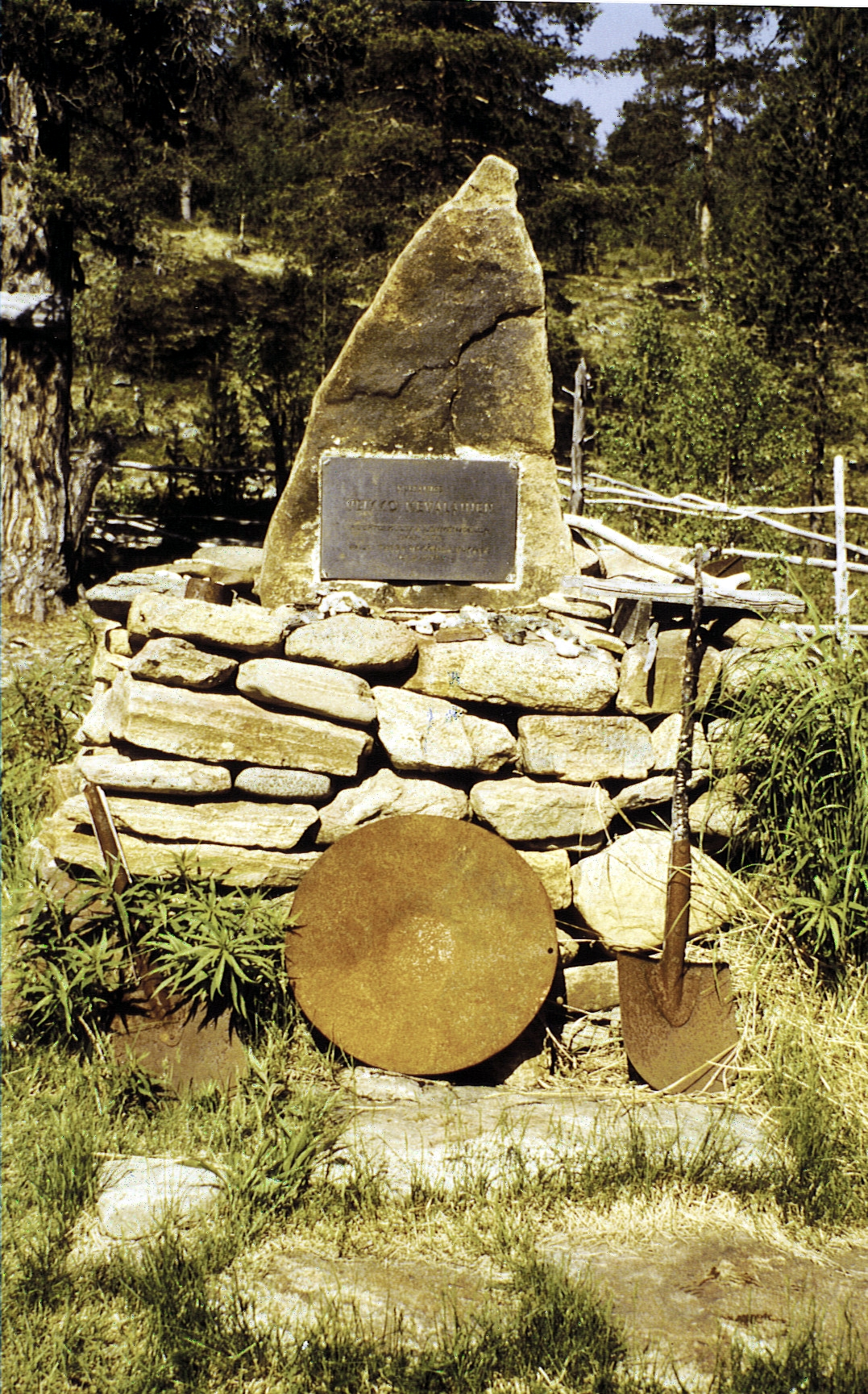 Memorial of Veikko Nevalainen in Lemmenjoki National Park in Inari, Finland